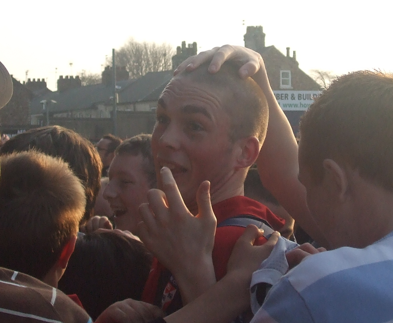 Richard Brodie celebrating with fans after York City's match against AFC Telford United at Bootham Crescent, York on 21 March 2009